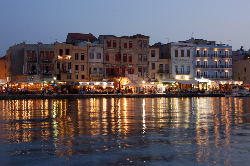 Part of the old city of Chania in the island of Crete, Greece. 2007